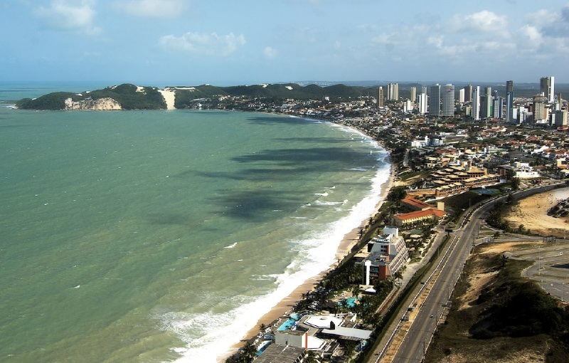 Skyline of Natal, in Rio Grande do Norte, Brazil.